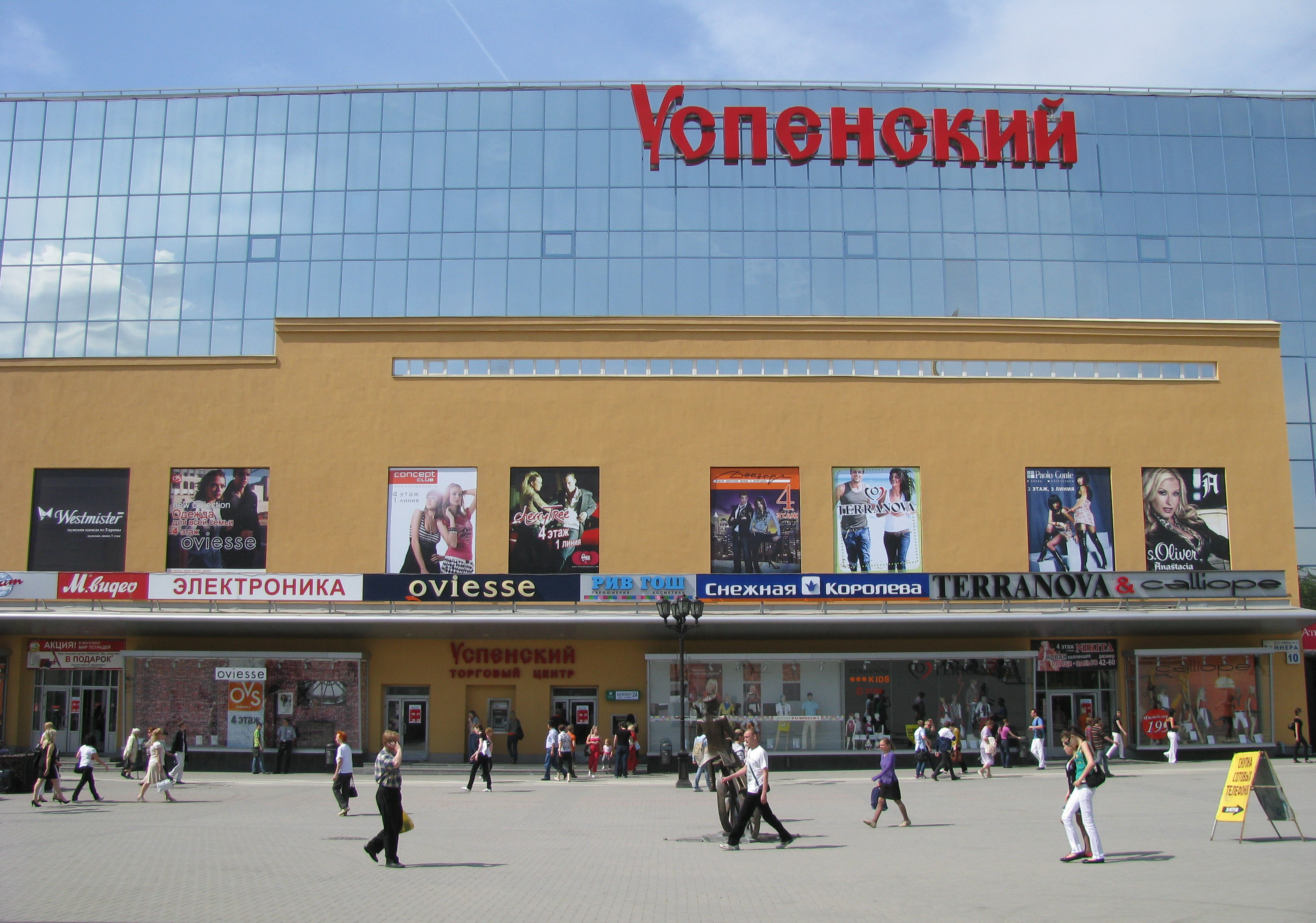 The Uspenskiy Shopping Centre in Vainer Street, Yekaterinburg